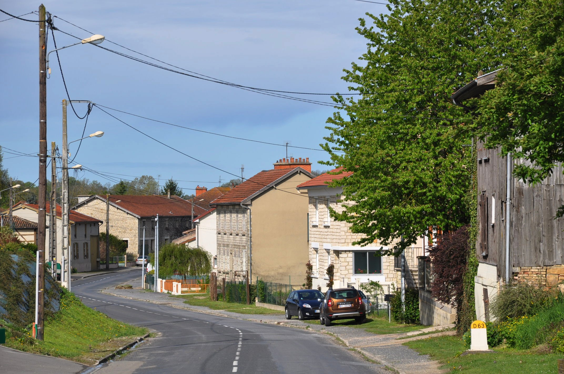 The Rue du Chemin de Chalons (main street, D63) in Villers-en-Argonne (canton Sainte-Menehould, Marne department, Champagne-Ardenne region, France).